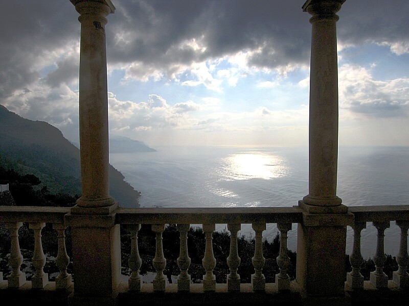 Son Marroig - Mallorca - Spain